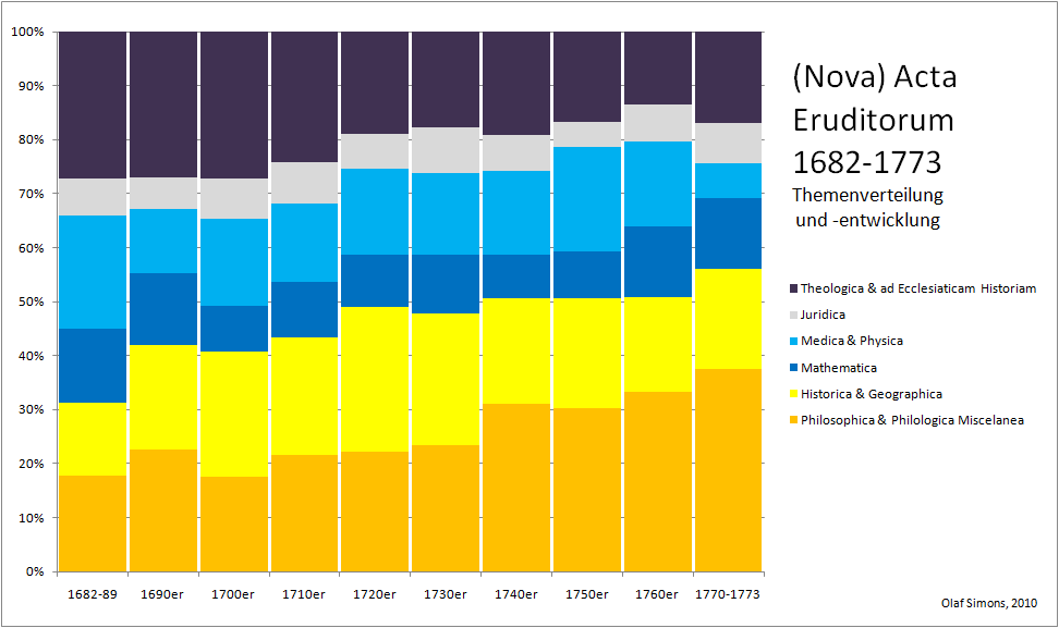 The rubrics of the individual articles published in the (latin) Acta Erudtorum, 1682-1773.